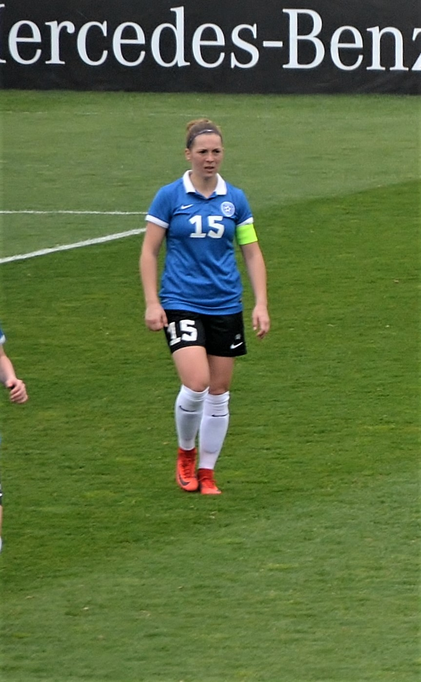 Inna Zlidnis playing for Estonia women's national football team in the friendly away match against Turkey at TFF Riva Facility on 7 April 2018.